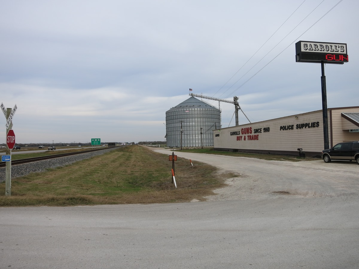 Photo shows a grain silo and Carroll's gun store along US 59 in Mackay, Texas. View looks northeast toward Wharton.